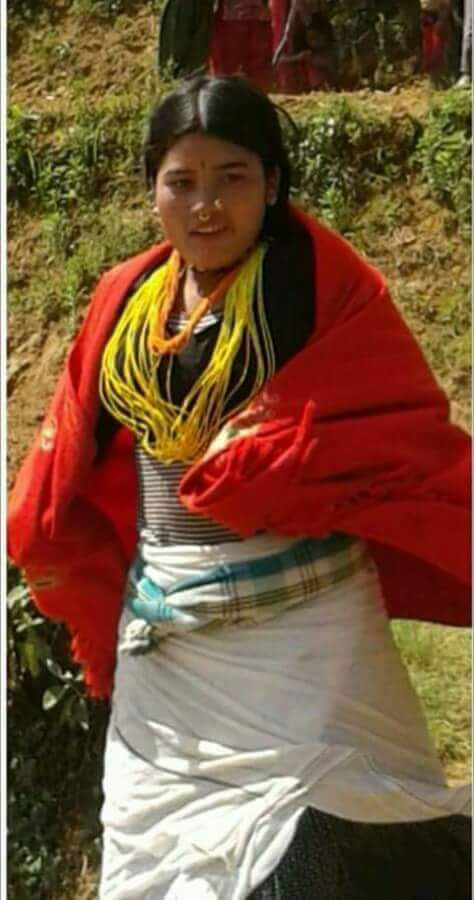 सुदूर पश्चिमकी महिला आफ्नो भेषभुषामा